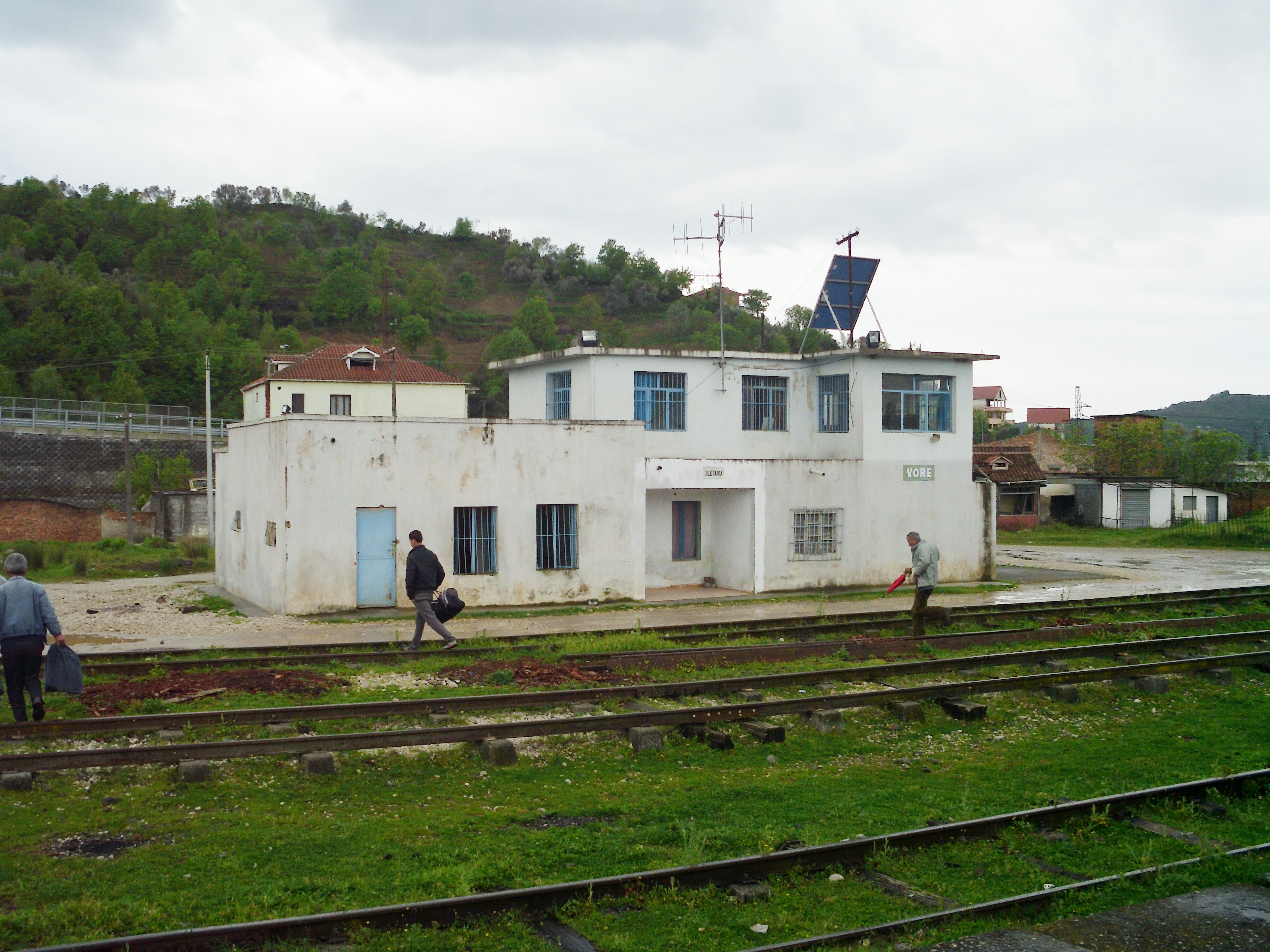 Train station in Vorë, Albania.